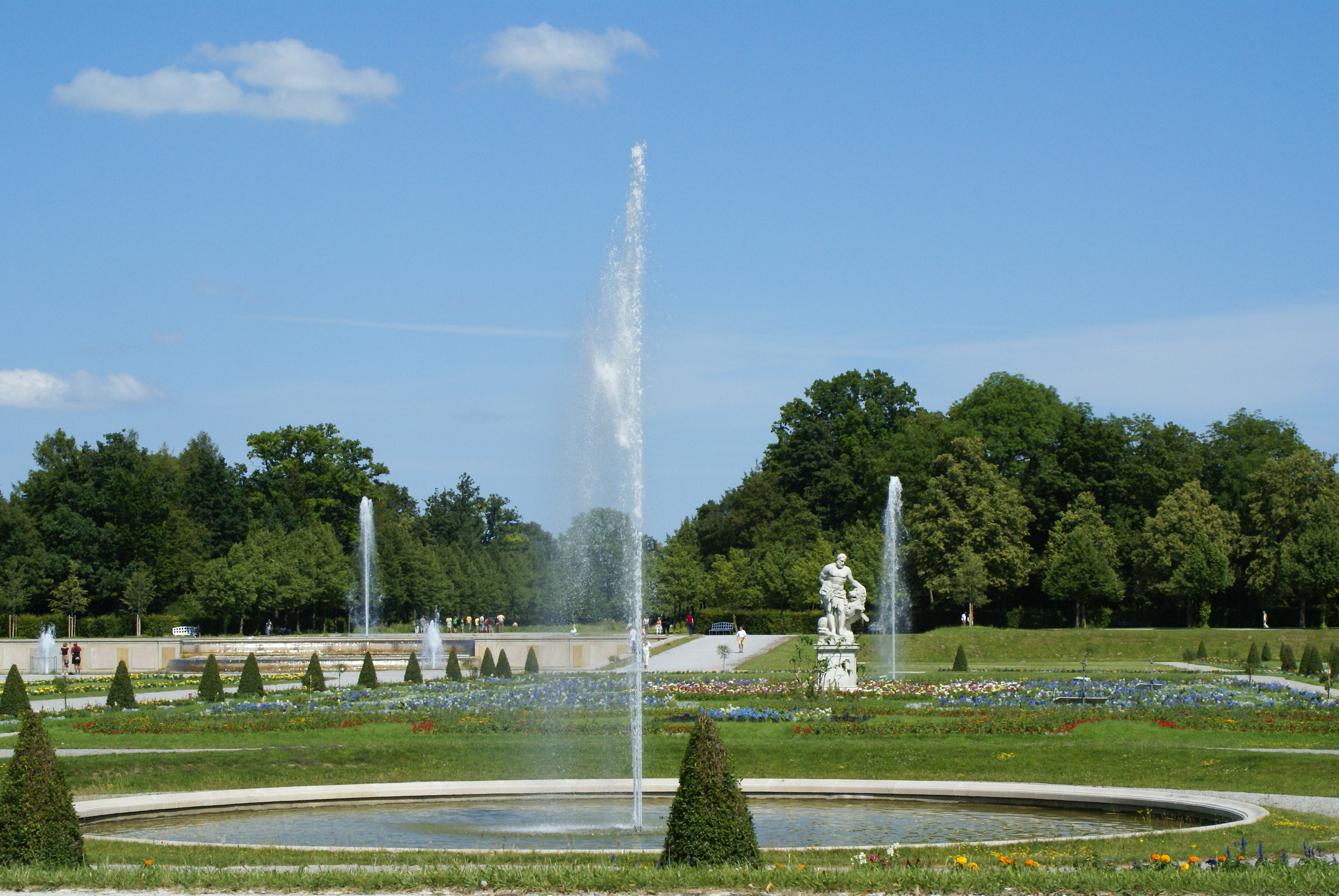 Castle Schleissheim, Germany